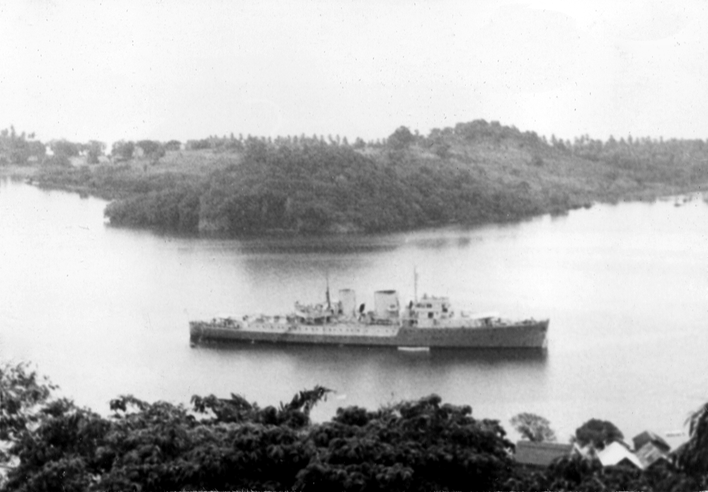 Scanned from photo, personal album of crew member.